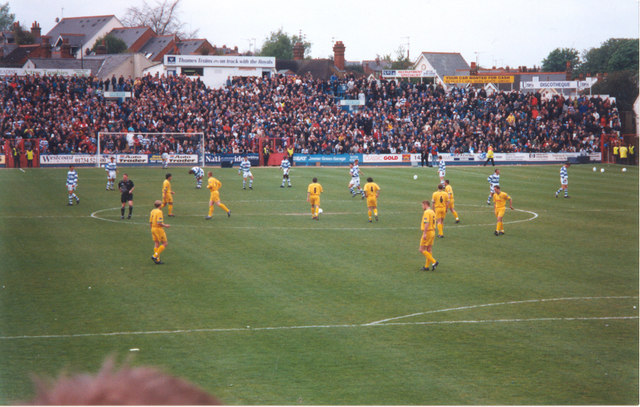 Elm Park, the home of Reading Football Club from 1896 until 1998. Photo taken at the last ever competitive match played at Elm Park between Reading and Norwich City. For more information see the Wikipedia article Elm Park (stadium).